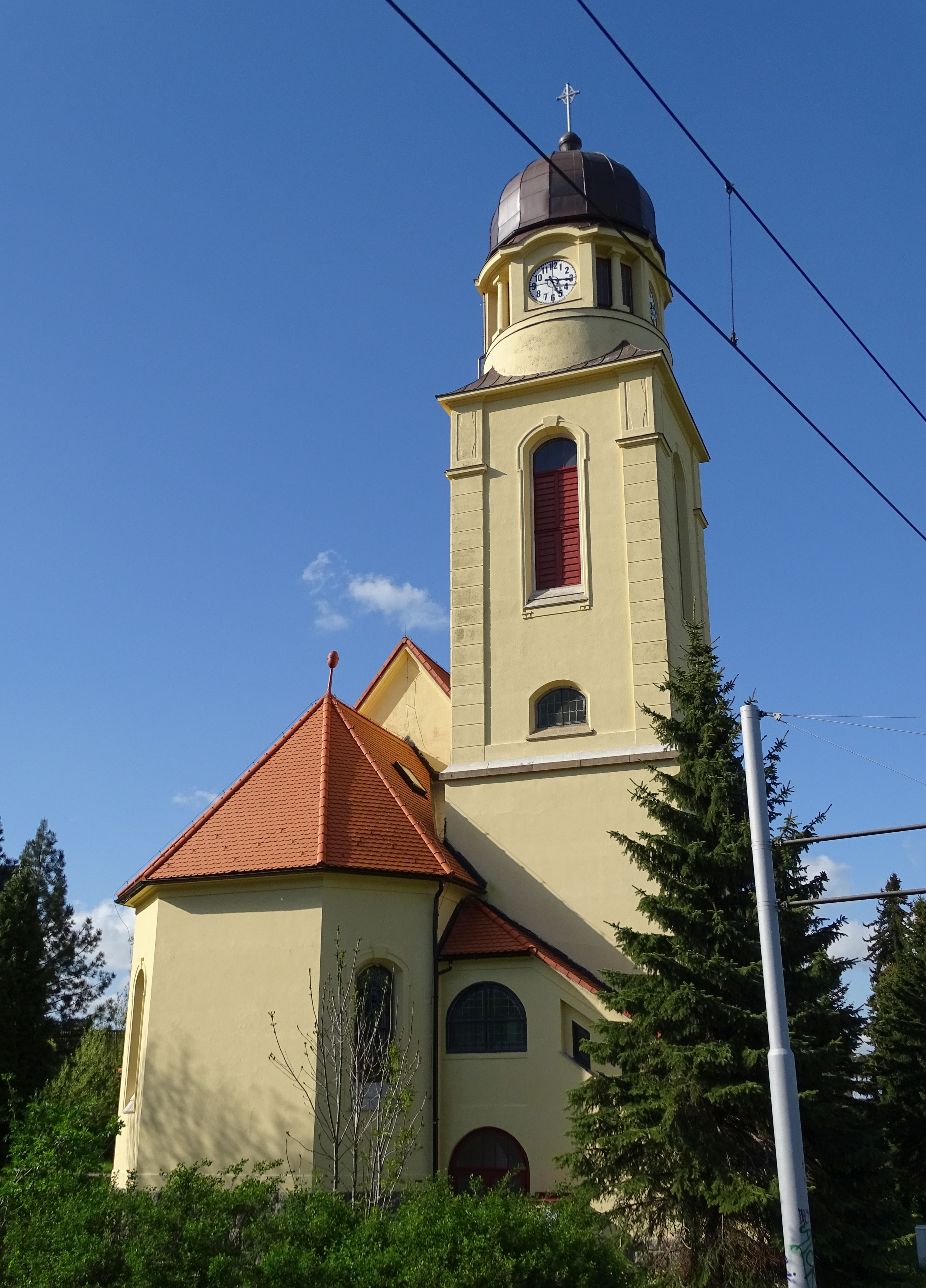 Liberec VIII-Dolní Hanychov, Liberec District, Liberec Region, Czech Republic. Church of Saint Boniface, seen from the tram.